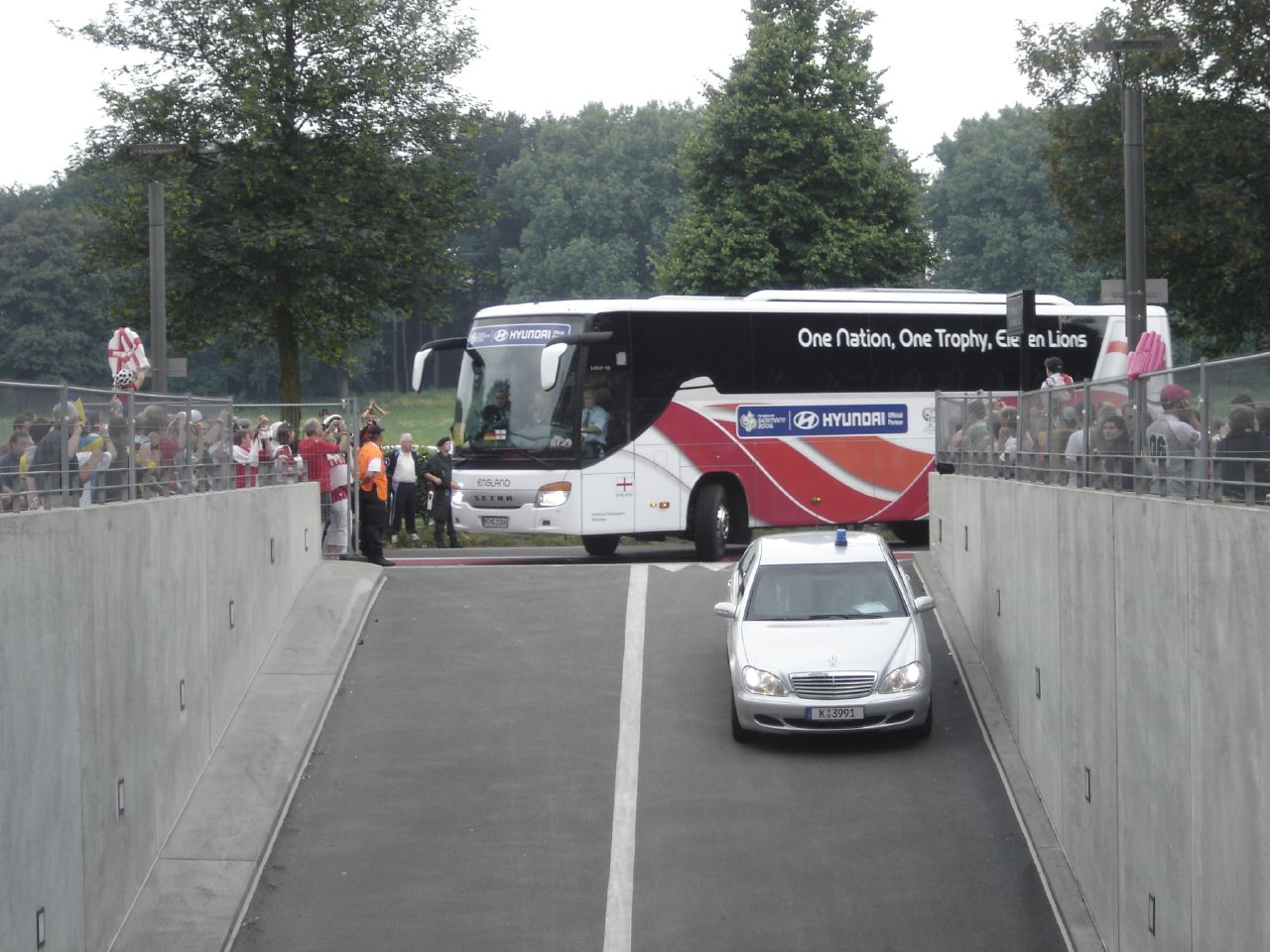 Setra S400-series coach of england team at the 2006 FIFA World Cup.